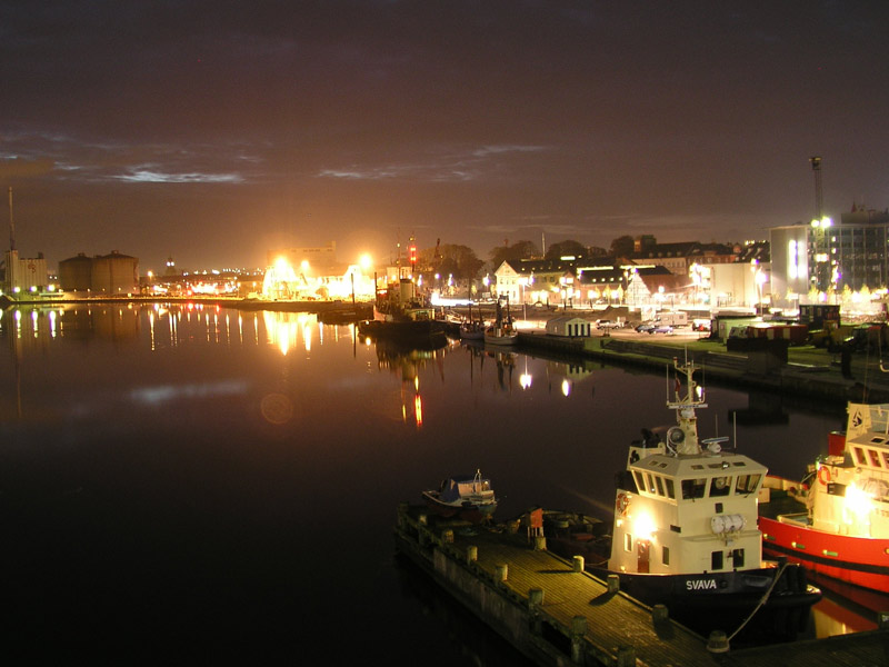 Aalborg harbour a sunday morningDansk: Aalborg havnefront en søndag morgen